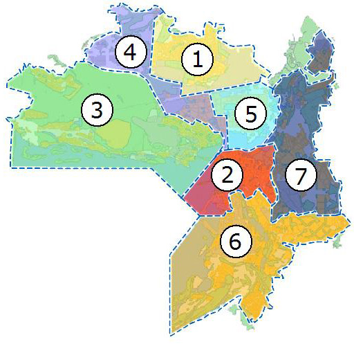 Kazan districts map